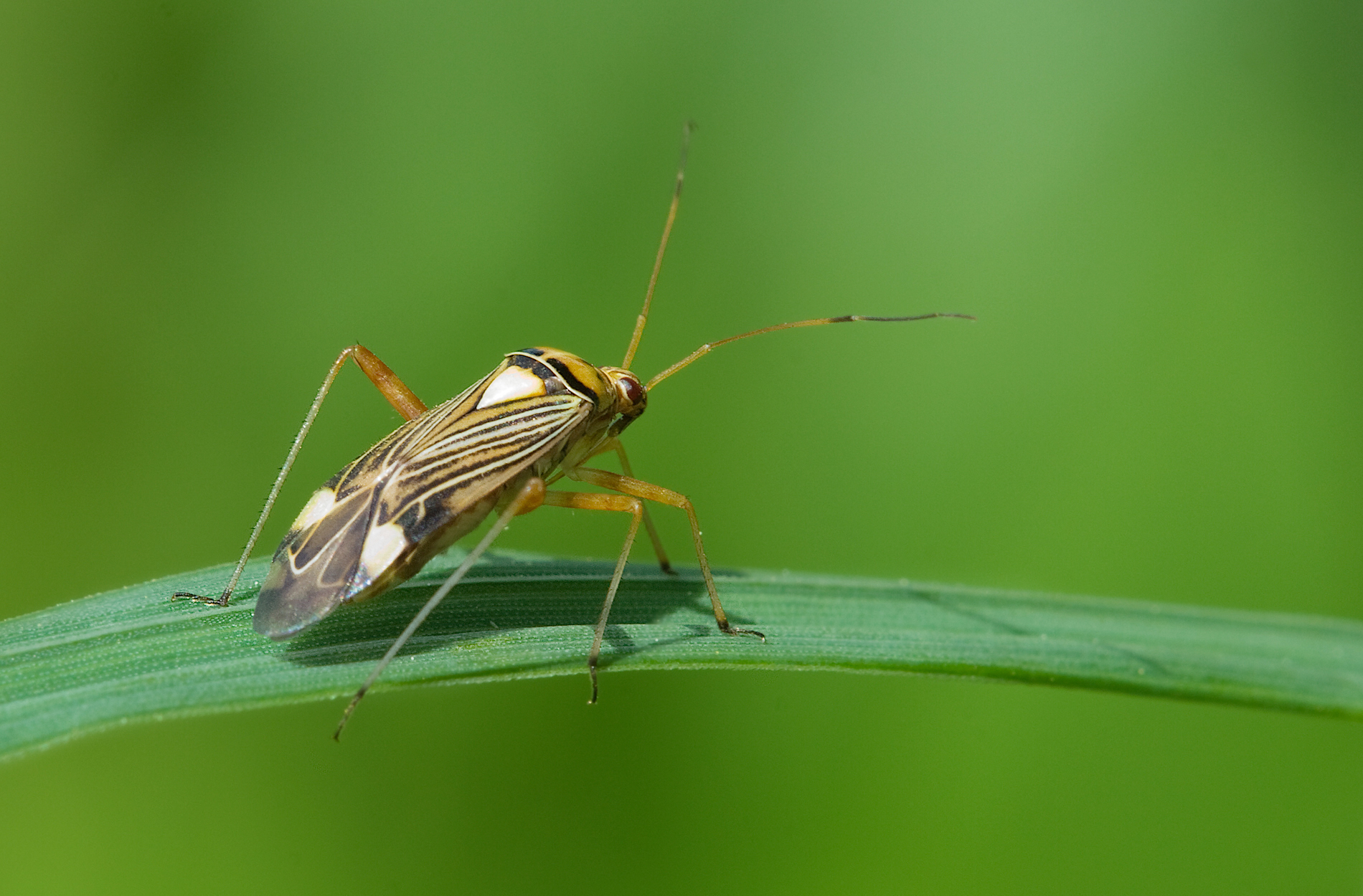 Pale form of Striped Oak Bug (Rhabdomiris striatellus) Perlacher Forst, Munich, Germany